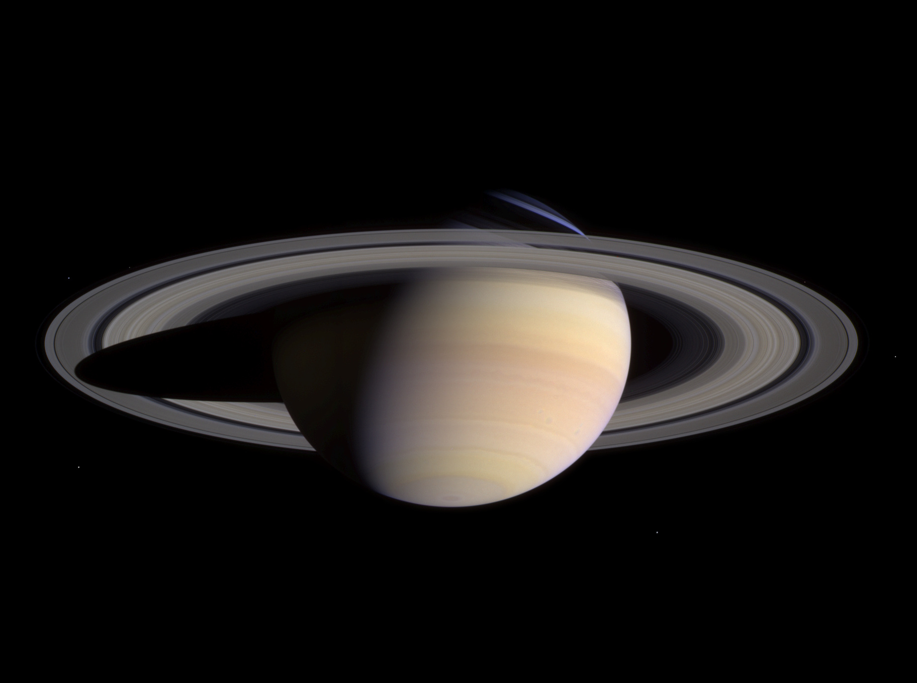 Saturn's peaceful beauty invites the Cassini spacecraft for a closer look in this natural color view, taken during the spacecraft's approach to the planet. By this point in the approach sequence, Saturn was large enough that two narrow angle camera images were required to capture an end-to-end view of the planet, its delicate rings and several of its icy moons. The composite is made entire from these two images. The images were taken on May 7, 2004 from a distance of 28.2 million kilometers (17.6 million miles) from Saturn. The image scale is 169 kilometers (105 miles) per pixel.